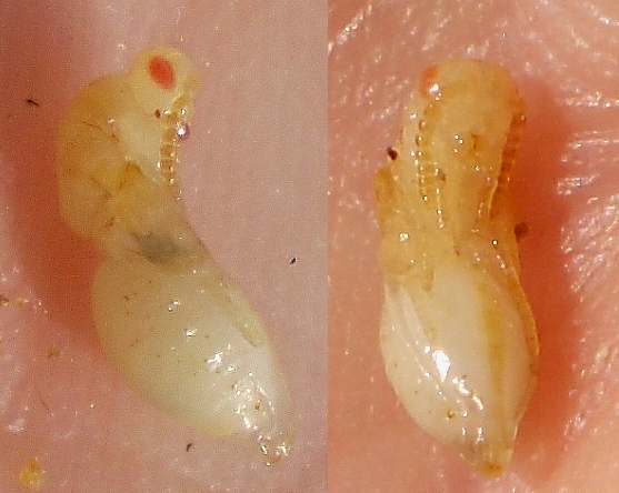 Nympha of Eurytoma amygdali found in an almond remained on the tree(Prunus dulcis)at the beginning of march.